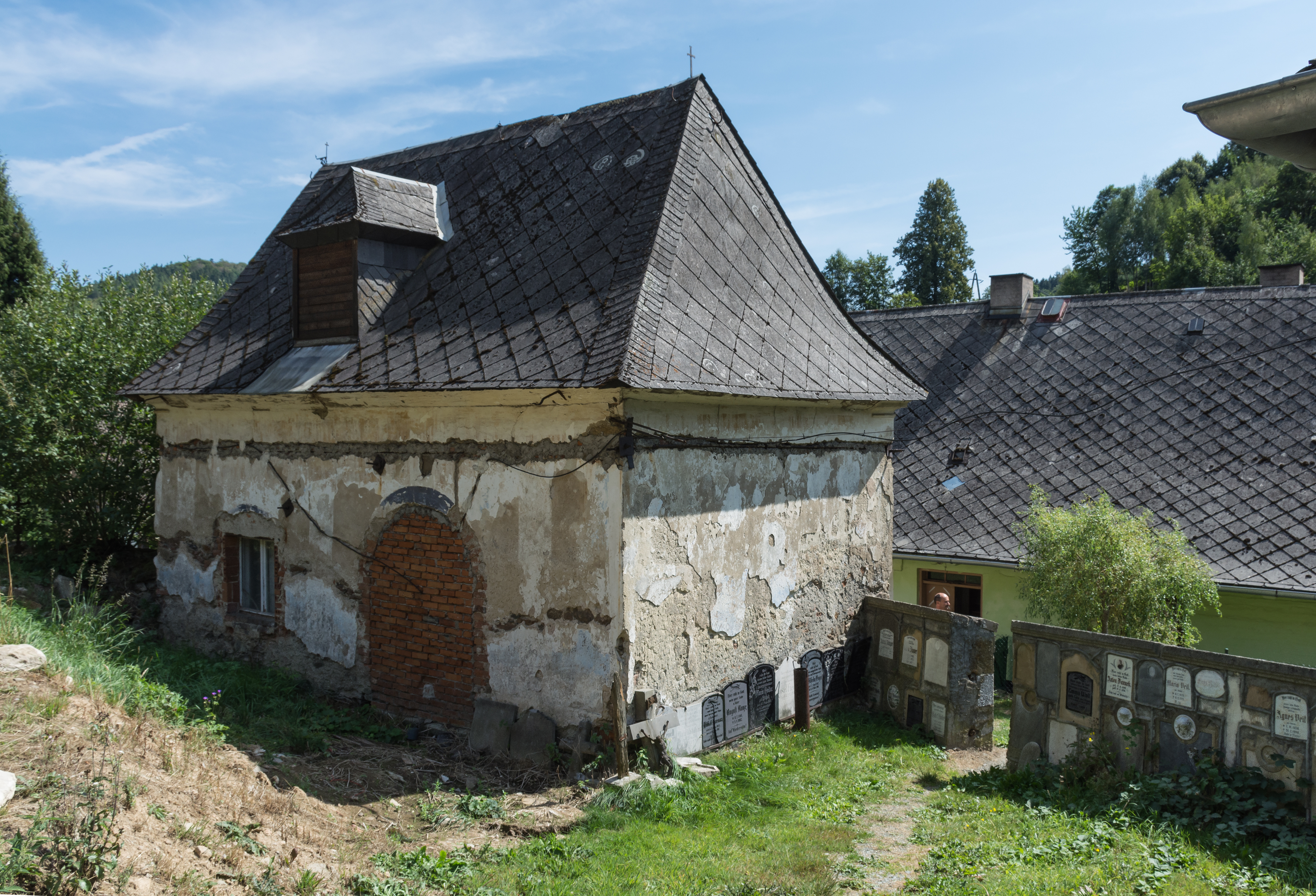 Mortuary chapel in Nowa Bystrzyca